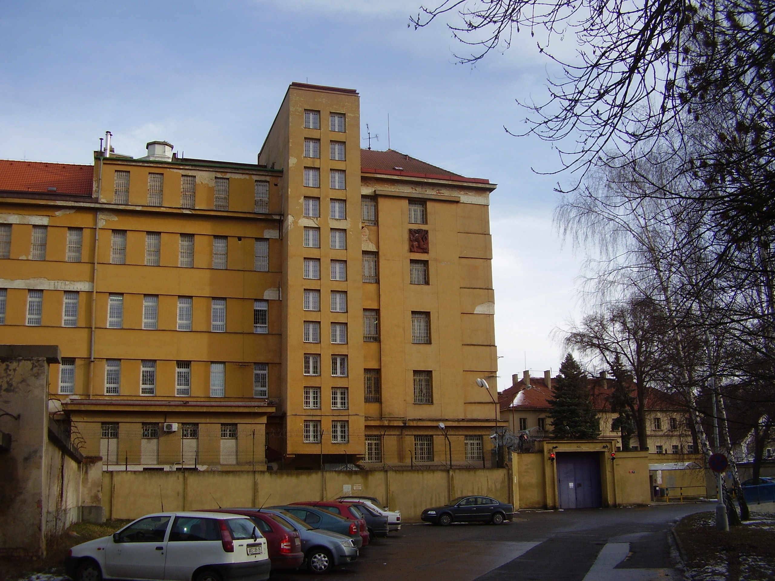 Jailhouse in Ruzyně, Prague 6, Ruzyně